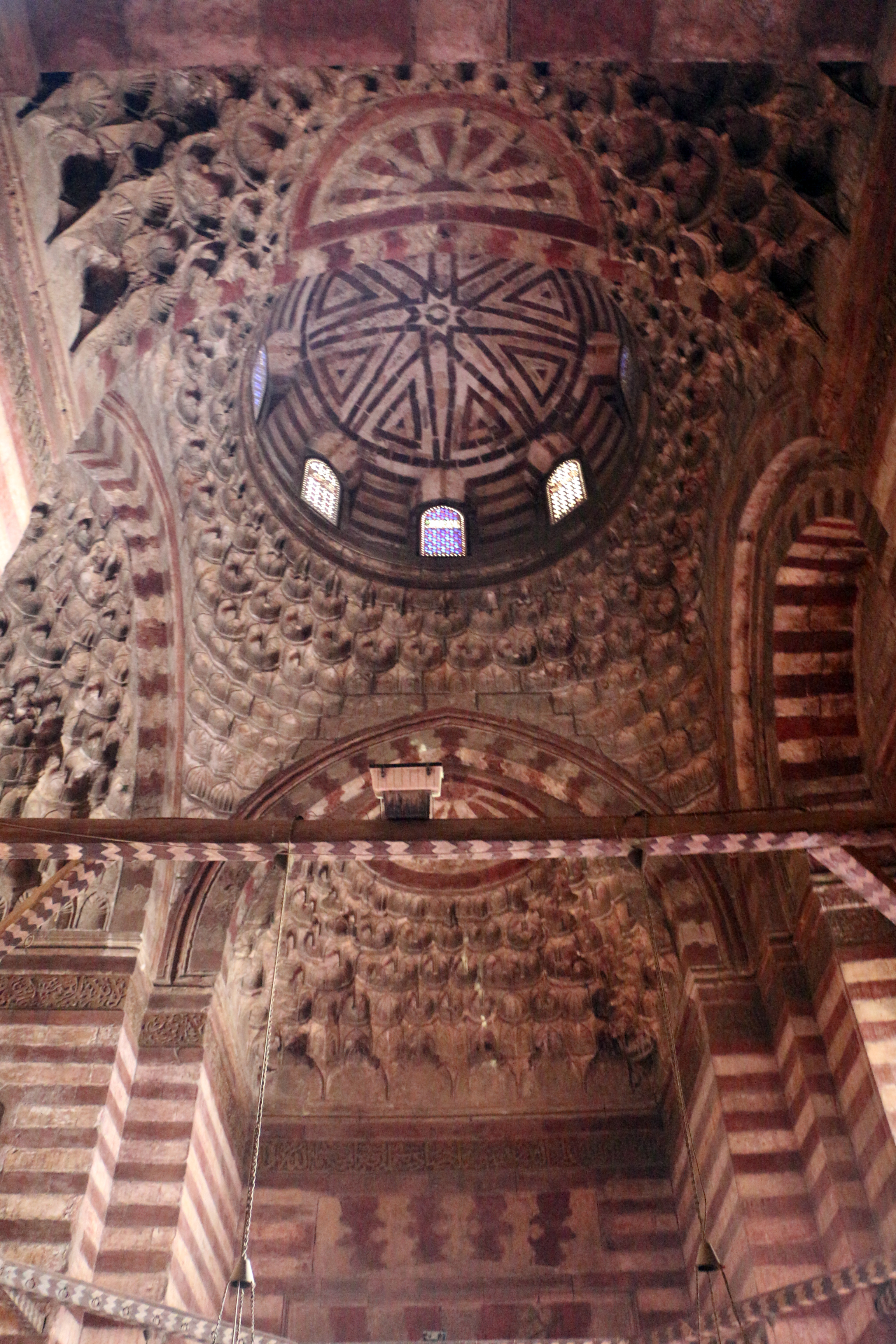 Mosque of Sultan Hasan